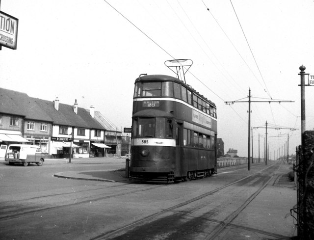 Tram at Lingwell Road, Middleton, City of Leeds in West Yorkshire